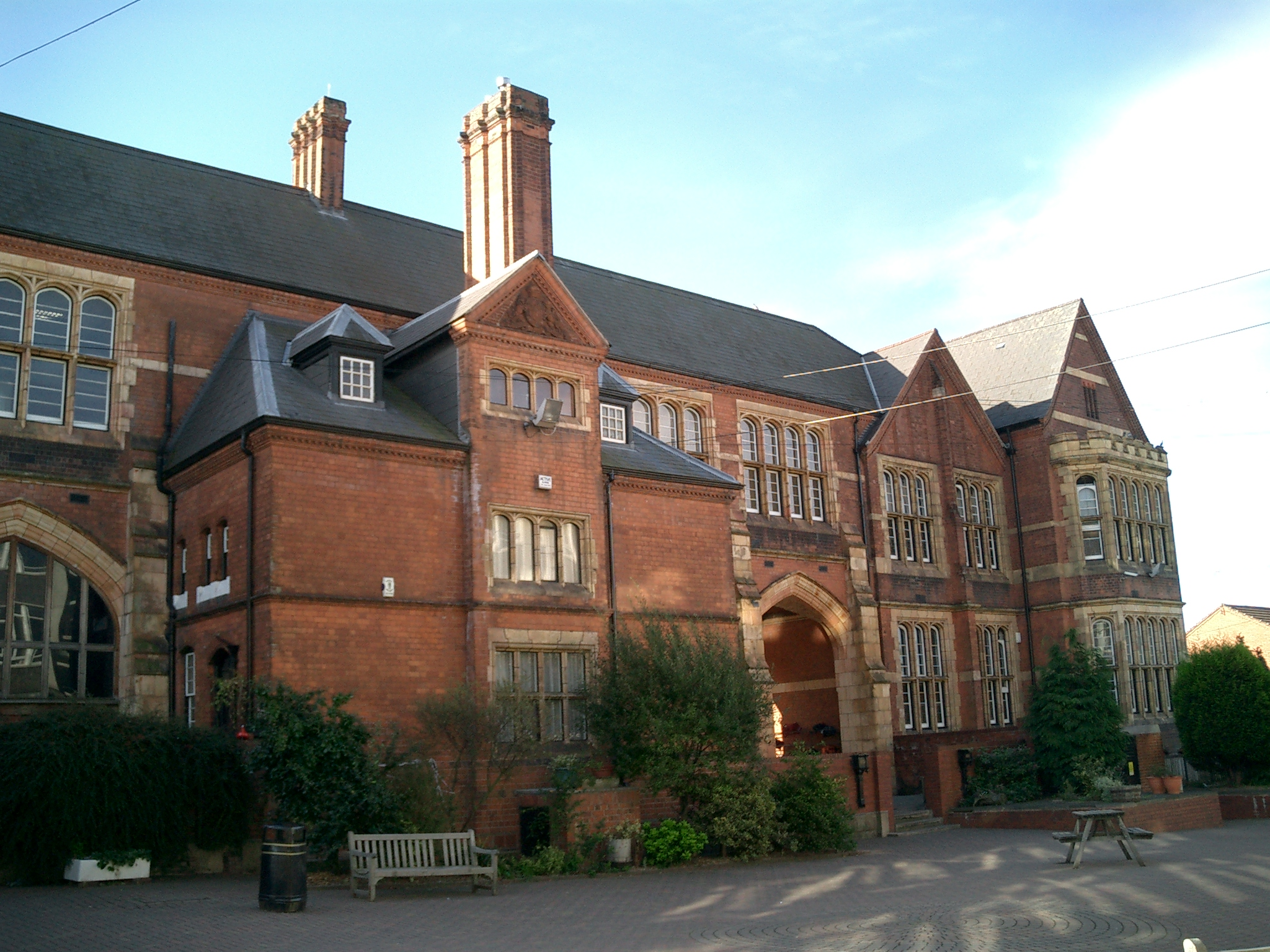 External picture of King Edward VI Aston - Taken on 29th September 2003.